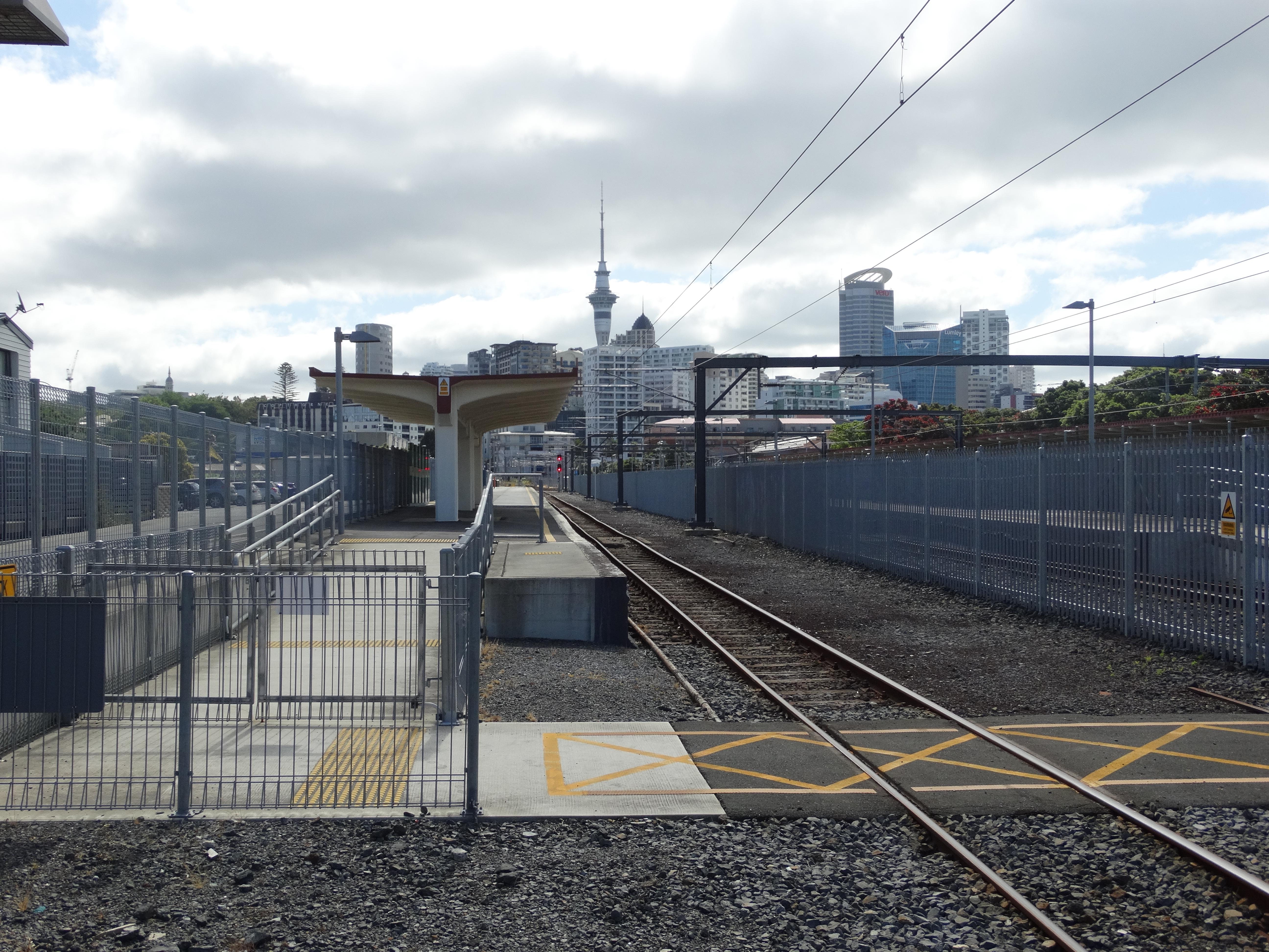 Strand Station Platform 1